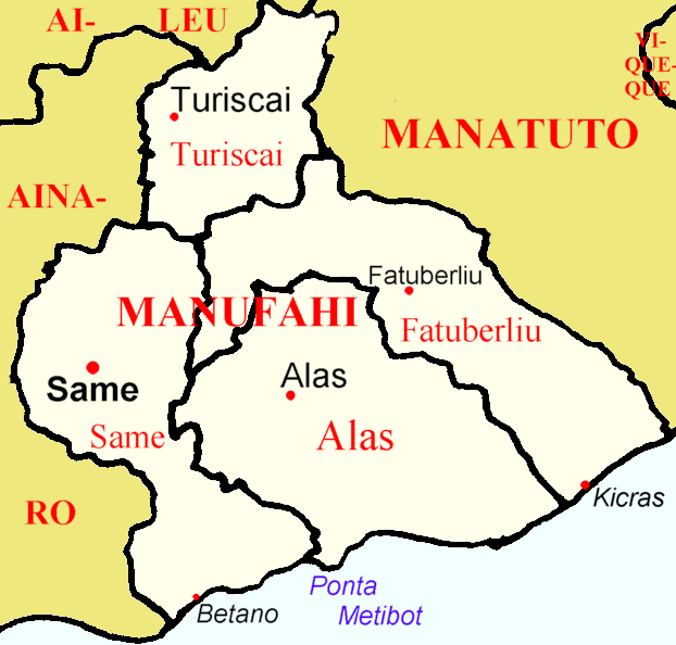 Subdistricts of District of Manufahi/East Timor.